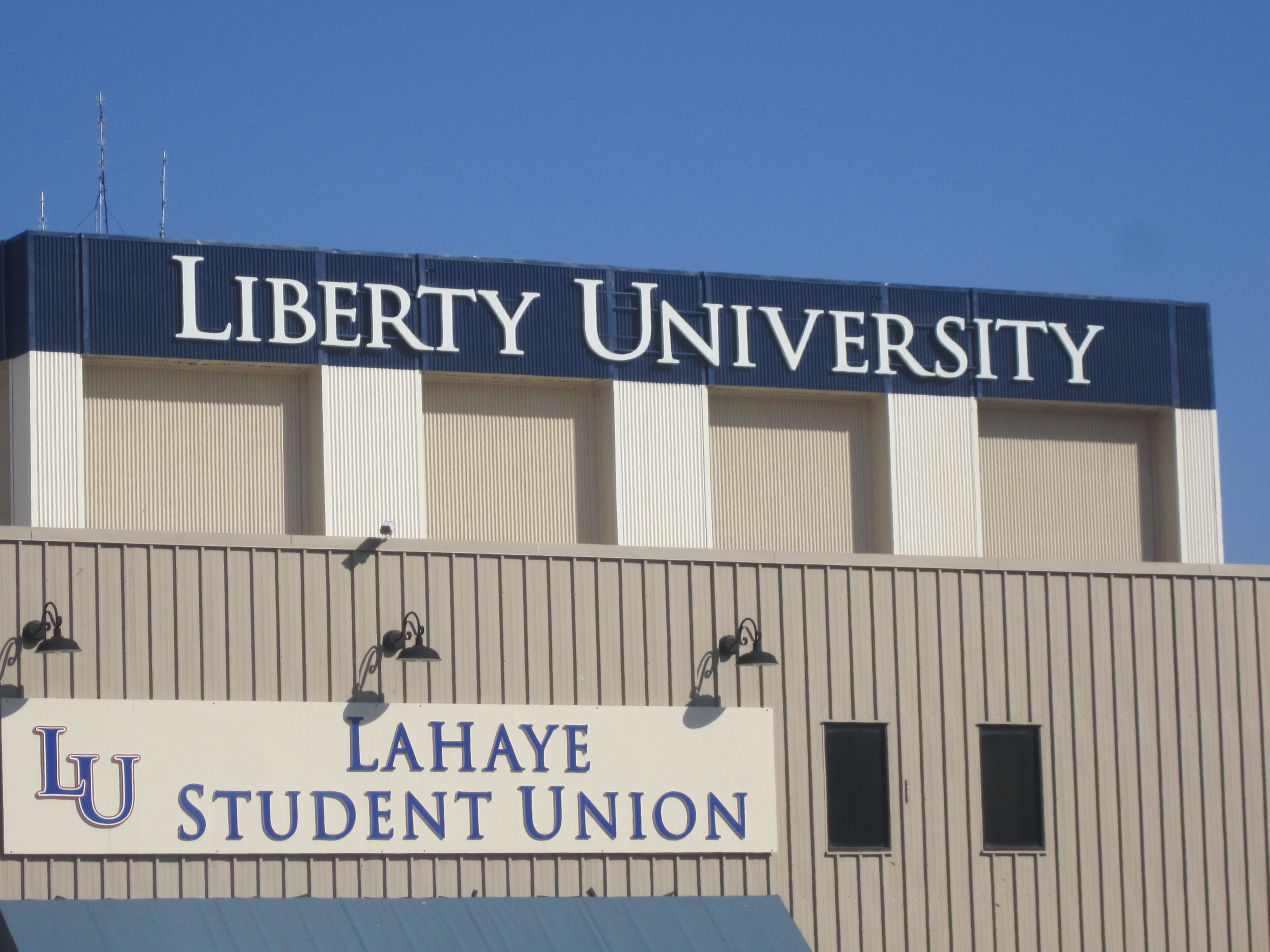 I took photo of Liberty University Student Union building with Canon camera.